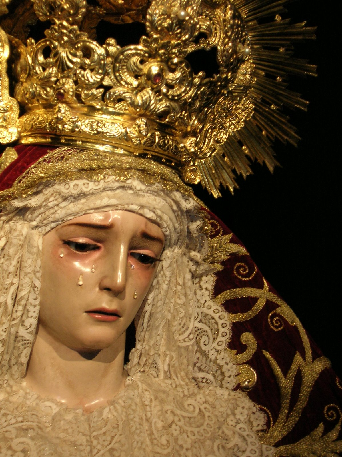 virgen de los dolores